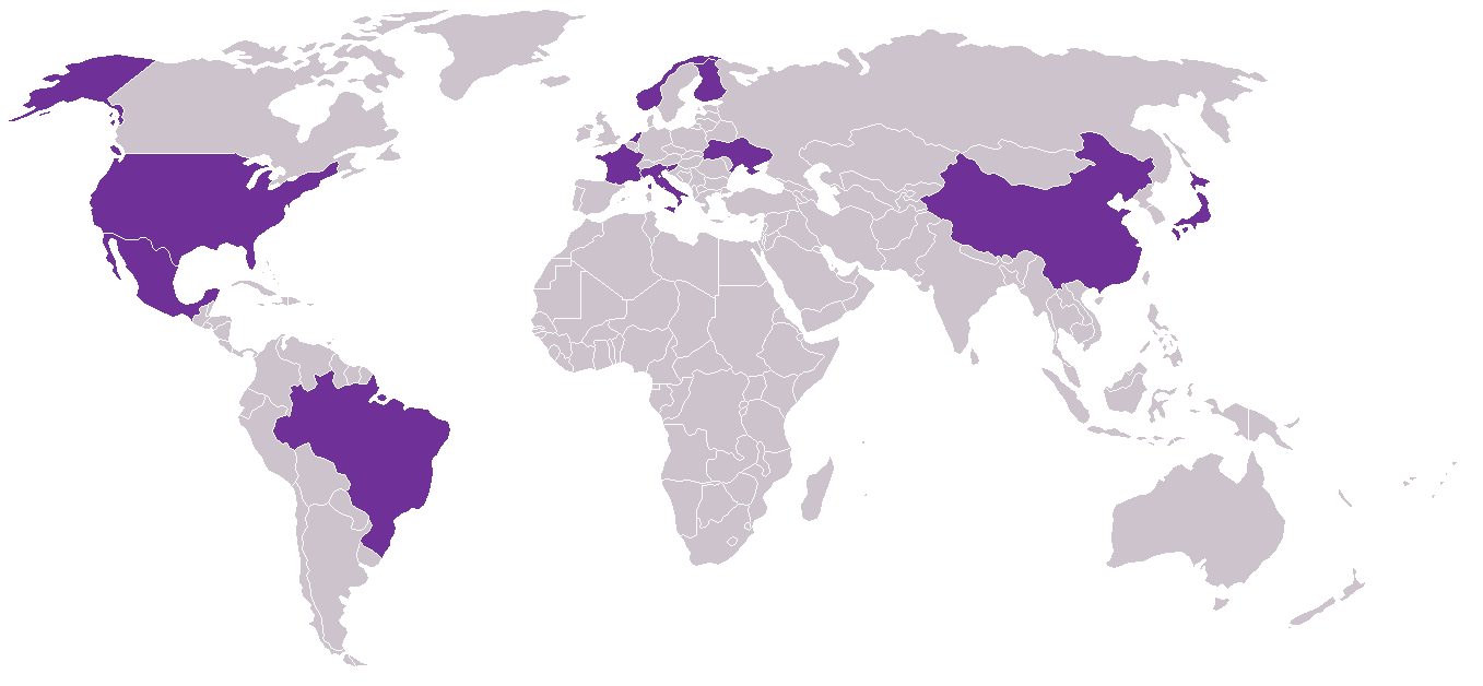 Countries with confirmed mutation of the swine flu virus